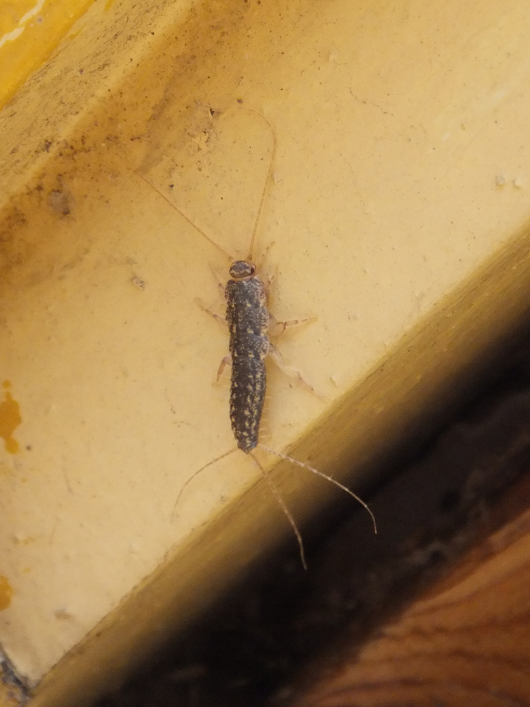 An exemplar of Thermobia domestica